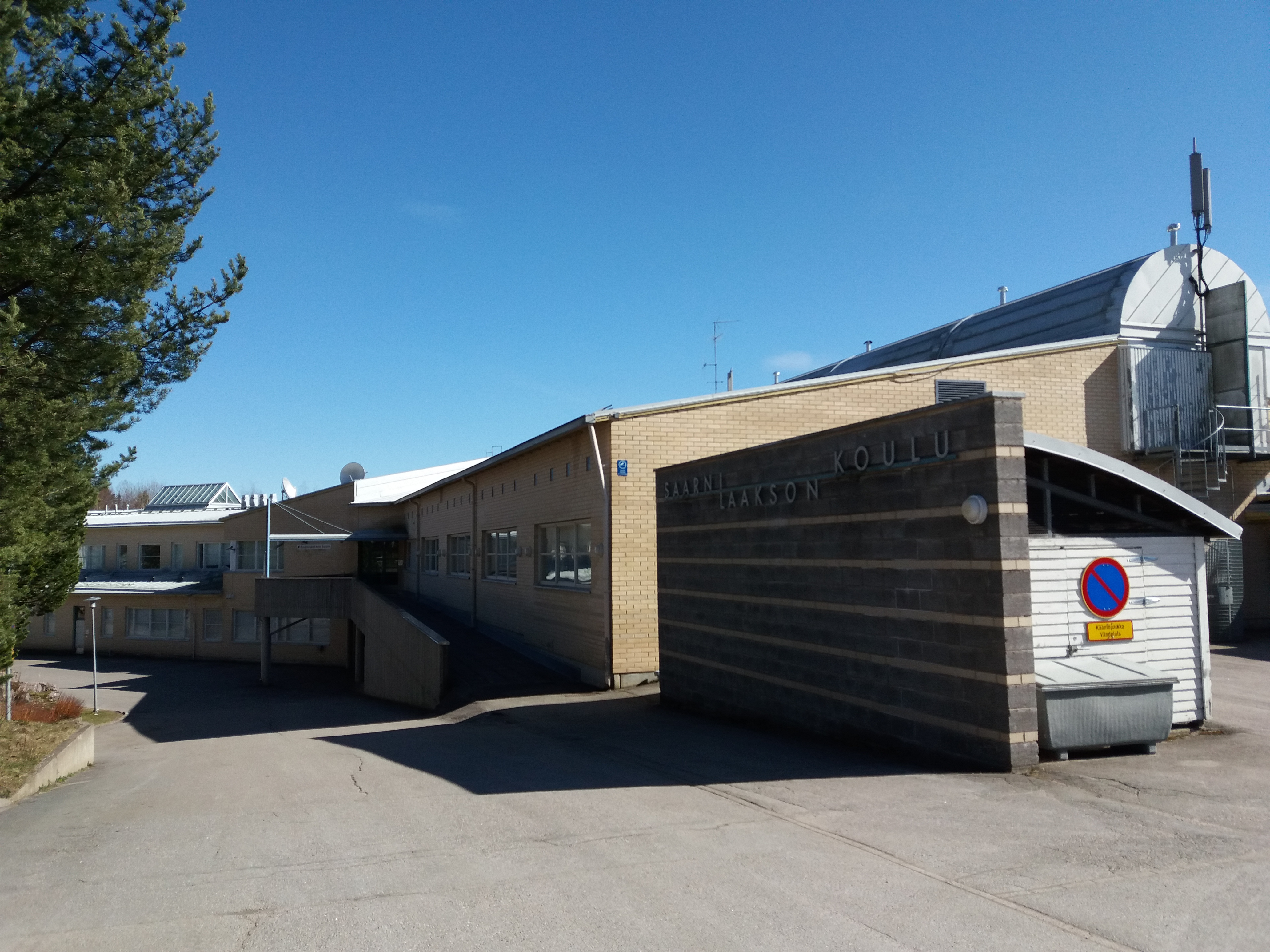 Saarnilaakson koulu is an upper comprehensive school in Espoo, Finland